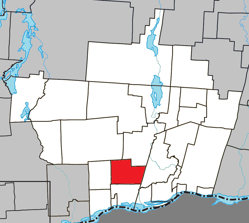 Location of Saint-Sixte, Quebec within Papineau Regional County Municipality.